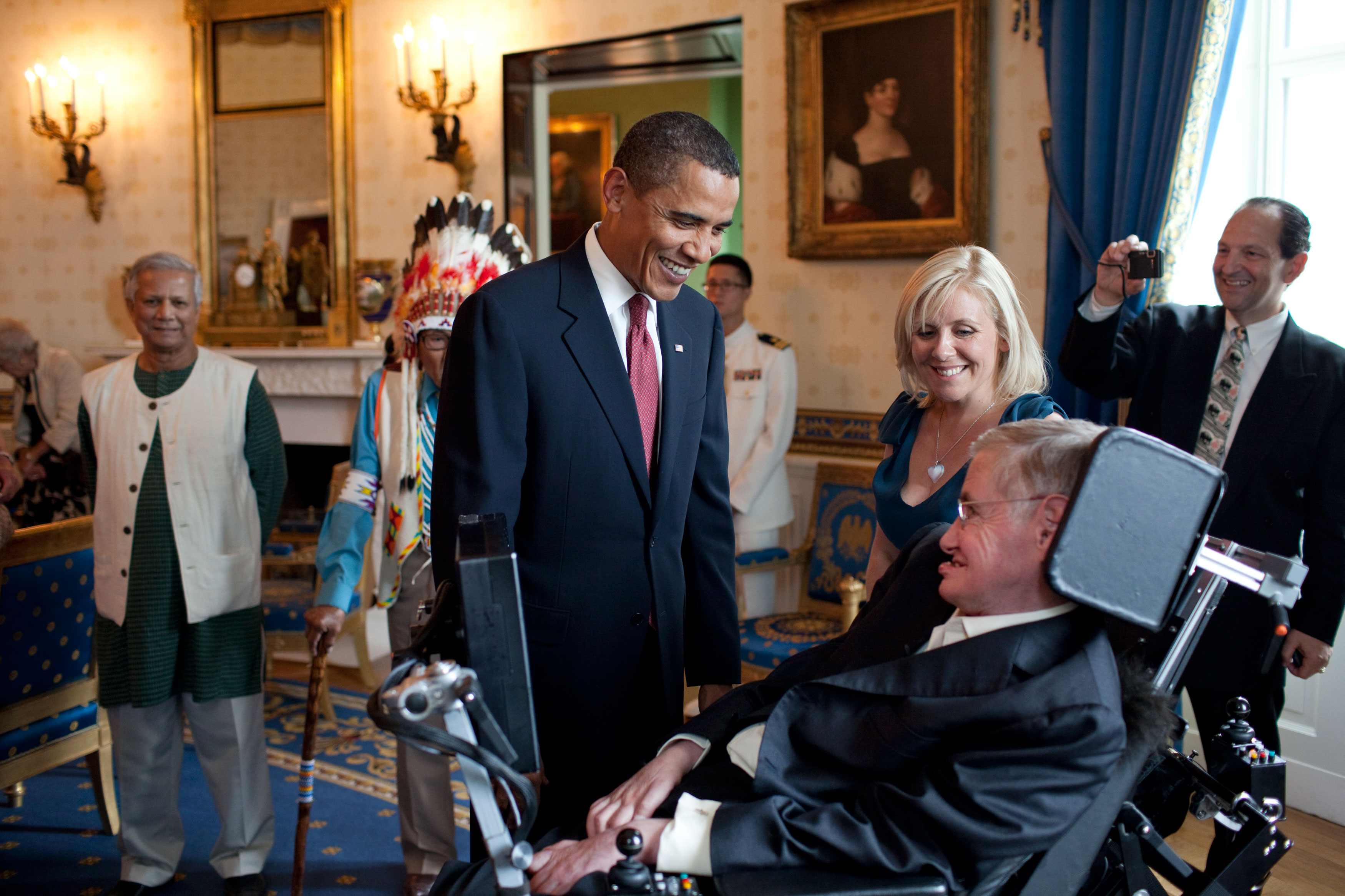 United States President Barack Obama talks with Stephen Hawking in the Blue Room of the White House before a ceremony presenting him and 15 others the Presidential Medal of Freedom on 12 August 2009. The Medal of Freedom is America's highest civilian honor. To Stephen's right is his daughter Lucy Hawking and on the left of the image is Muhammed Yunus, who received the same award.